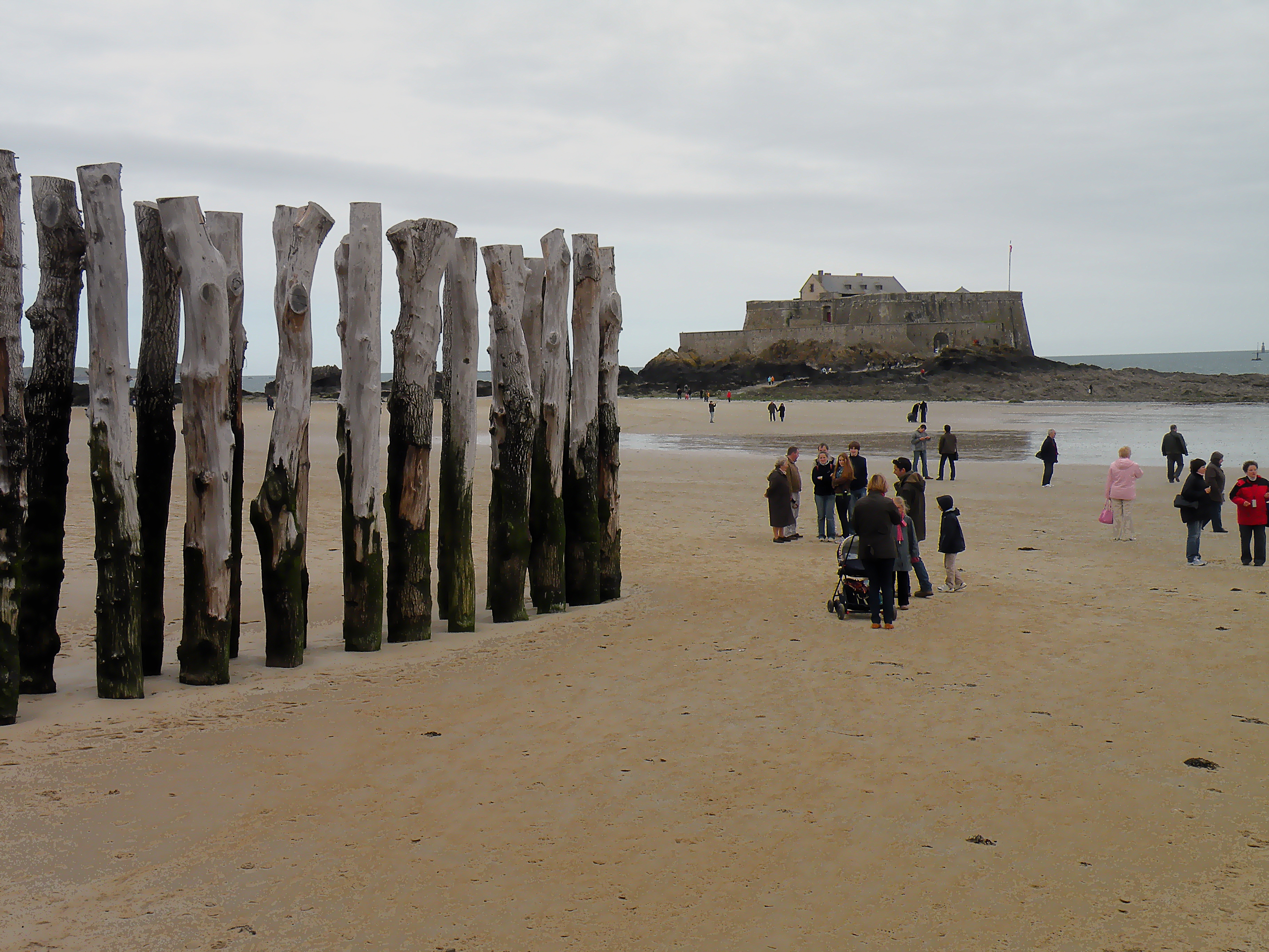 S.Malo.Low tide